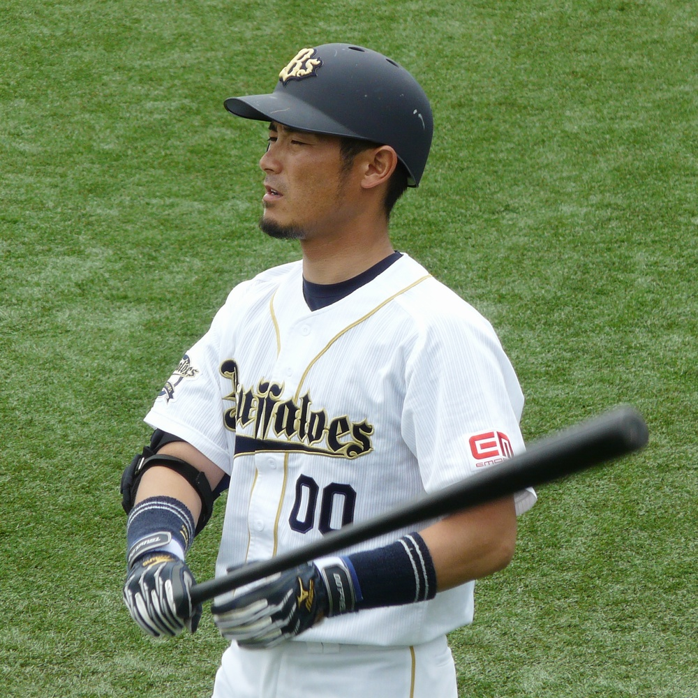 Tomochika Tsuboi, outfielder of the Orix Buffaloes, at Kobe Sports Park Sub Baseball Ground.